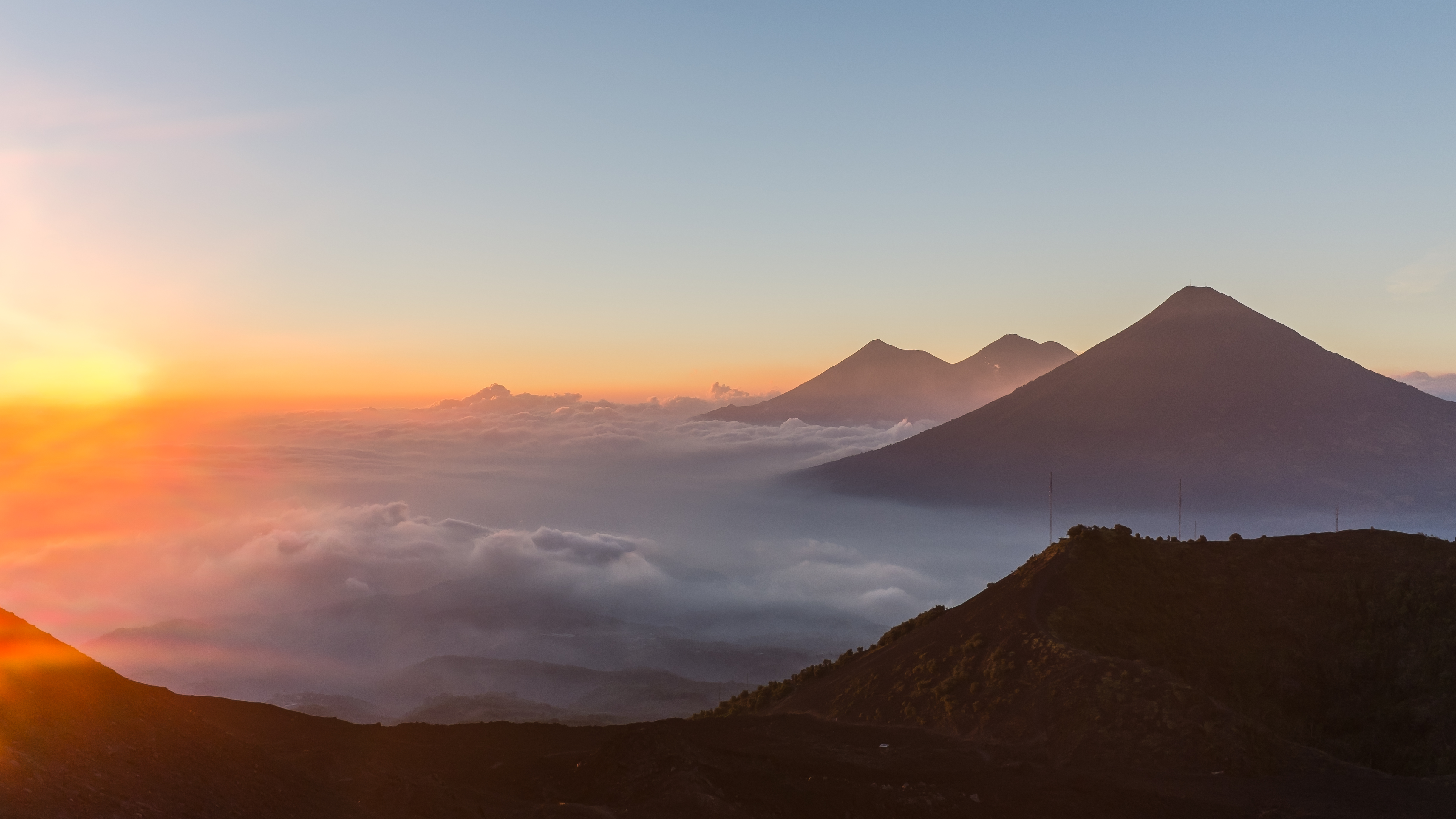 For the easy hike it requires, Volcano Pacaya, Guatemala, offers more than a rewarding view over volcanoes Fuego, Acatenango and Agua. This photo was taken from the Pacaya volcano in nearly the west direction (280 degrees) and the alignment of volcanoes is due to be on the Central American Volcanic Arc in the northern portion of this arc (belt) which belongs to Caribbean Plate.